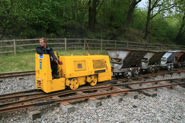 Apedale Valley Light Railway - Chaumont